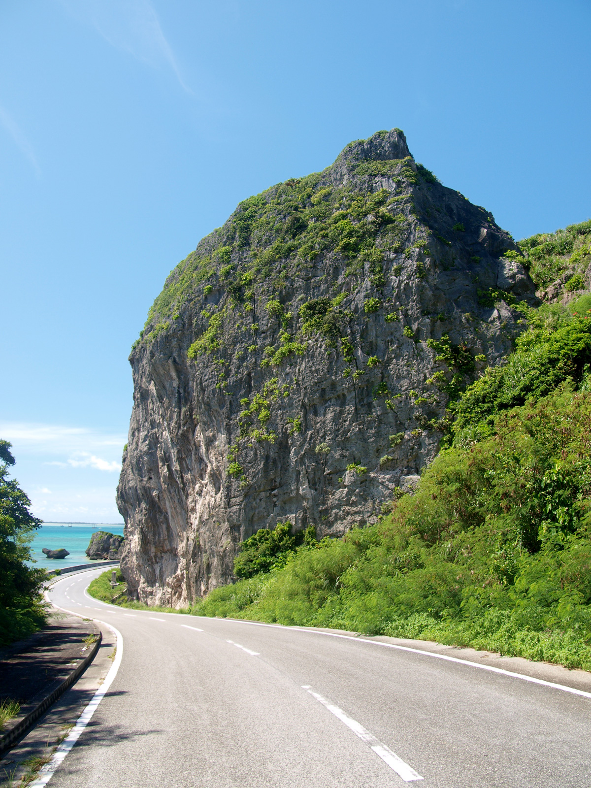 Yamatobu Oiwa, Irabu Island, Miyakojima, Okinawa, Japan